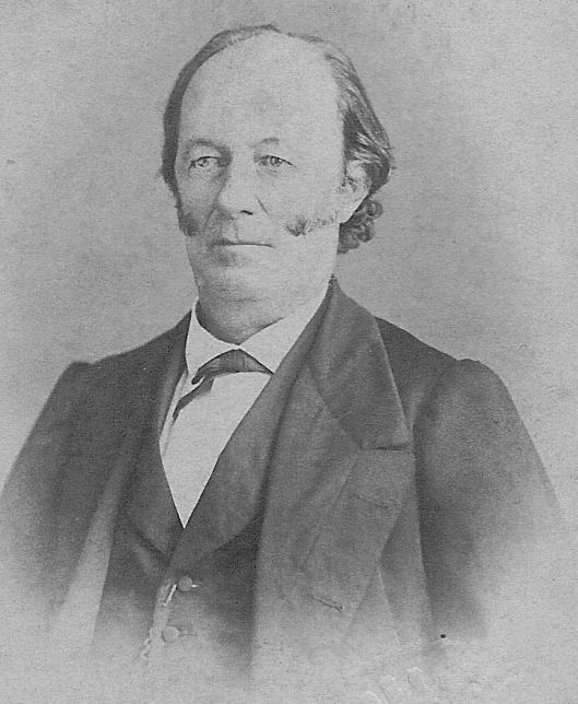 Francisco Antonio de Barros, Barão de Pitangy. (Col. Francisco Rodrigues; FR-05217) Alberto Henschel, Fundação Joaquim Nabuco. Cropped and grayscaled.